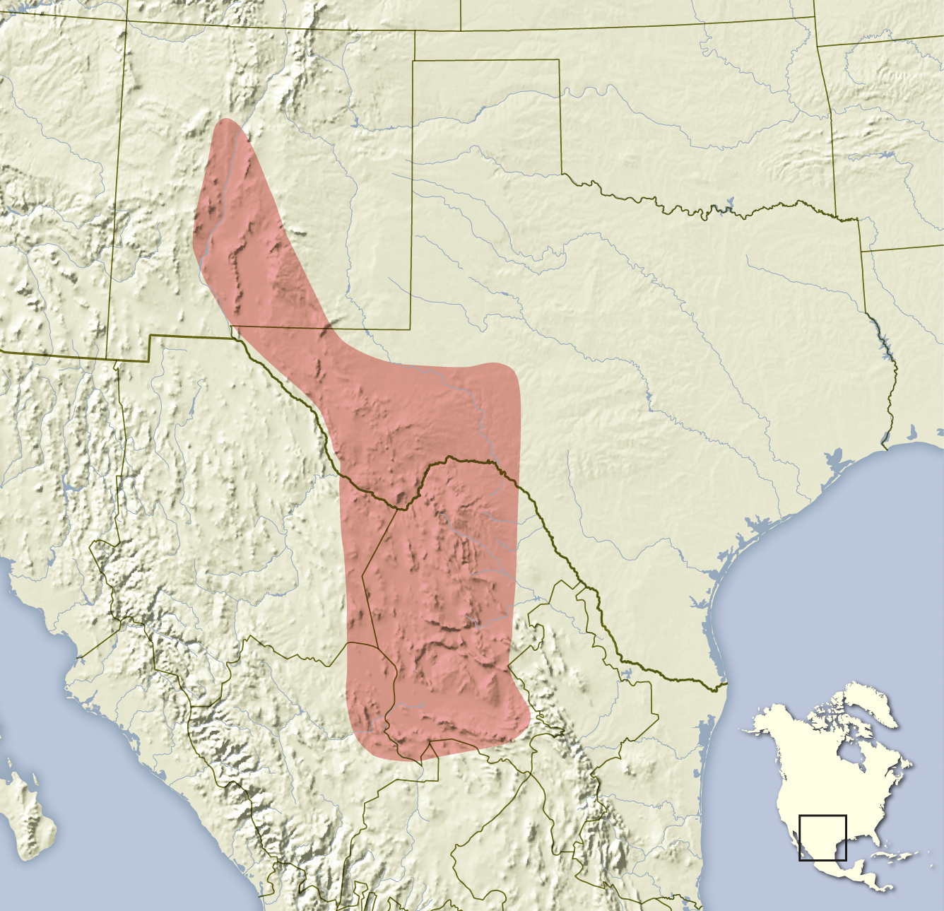 Distribution map of Texas antelope squirrel